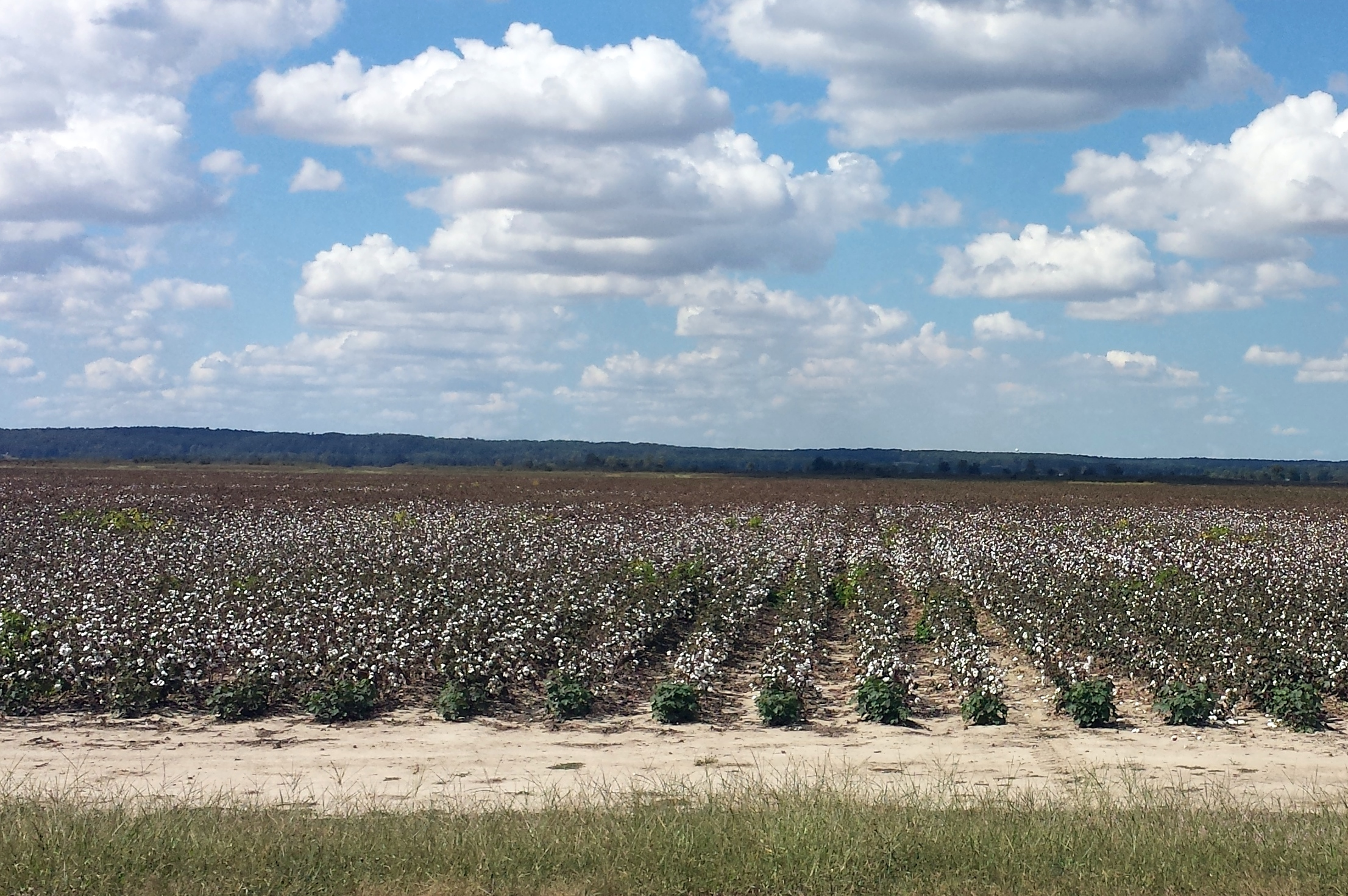 Cotton in a field in Poinsett County, AR